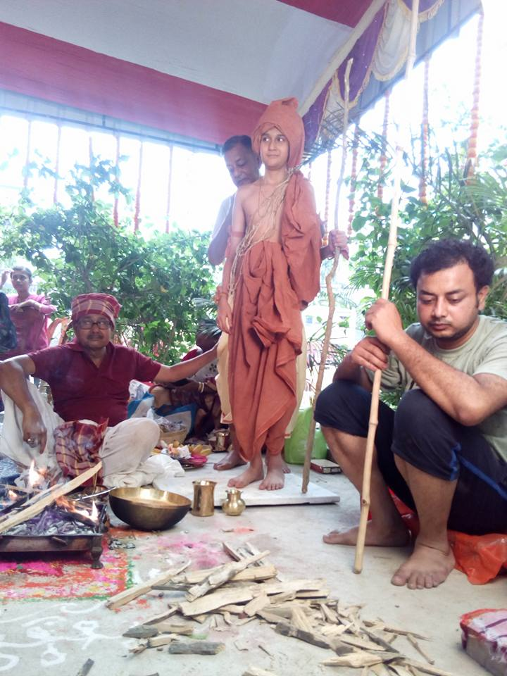 Upanayan is the Ritual Ceremony in West Bengal,India. Bramhins khashtriyas are Upanayan Ceremony. Bengali Language that is called 'Paite'